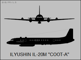 2-view silhouettes of Ilyushin Il-20M "Coot-A"